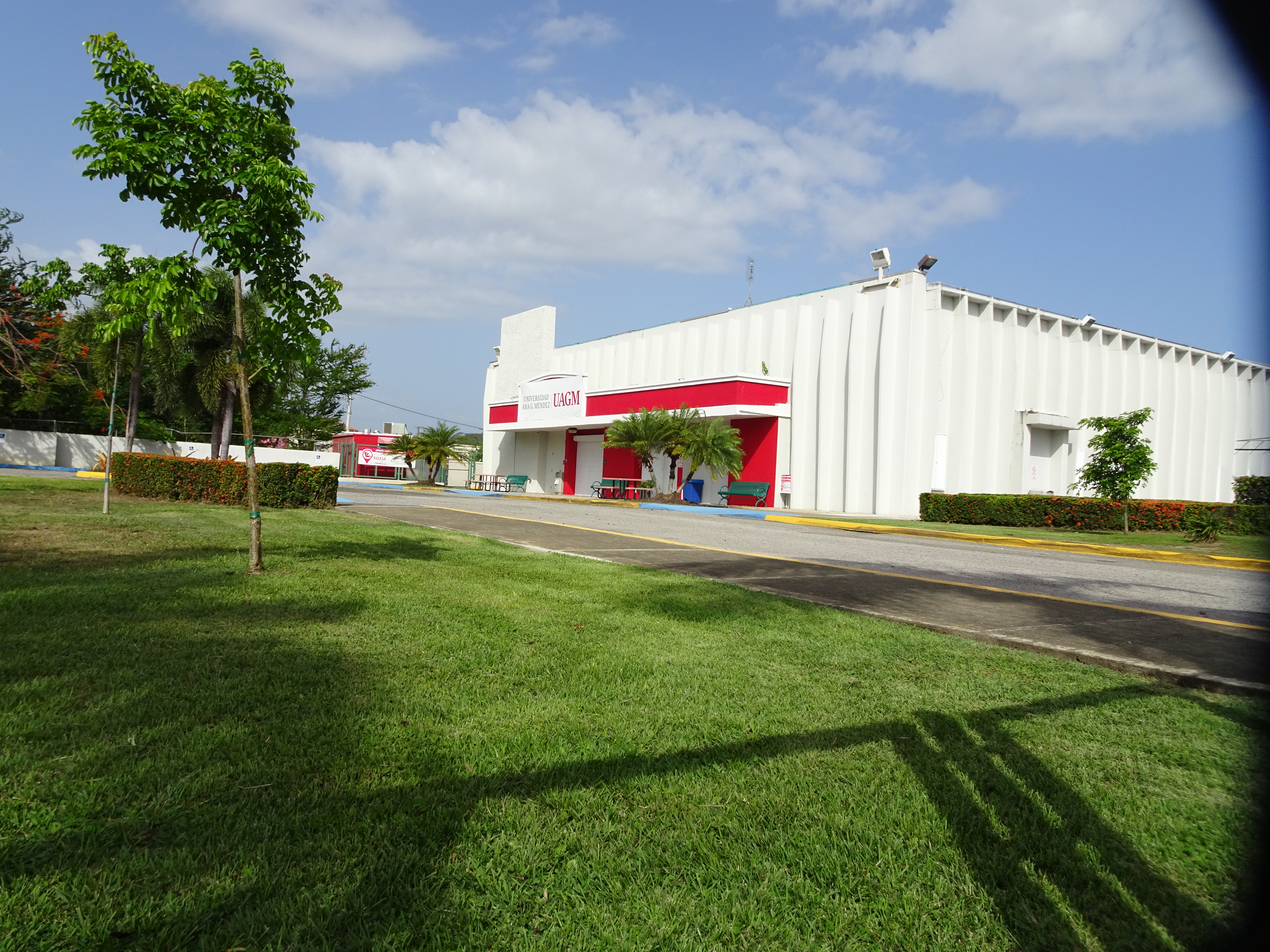 Univ. Ana G. Méndez, Ave. Tito Castro (PR-14), Bo. Machuelo Abajo, Ponce, Puerto Rico, mirando al sureste (DSC01406)